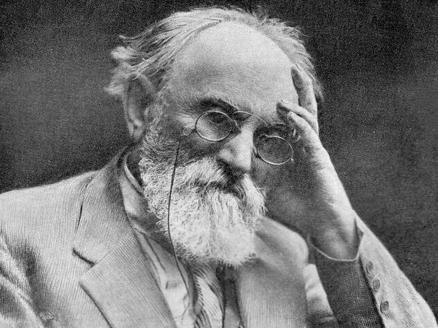 Samuil Shatunovsky (25.03.1859 - 27.03.1929)